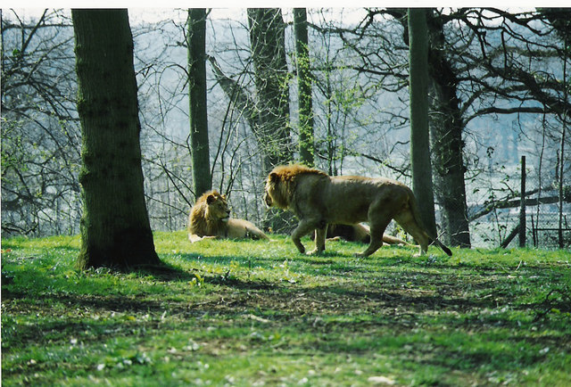 The lions of Longleat.